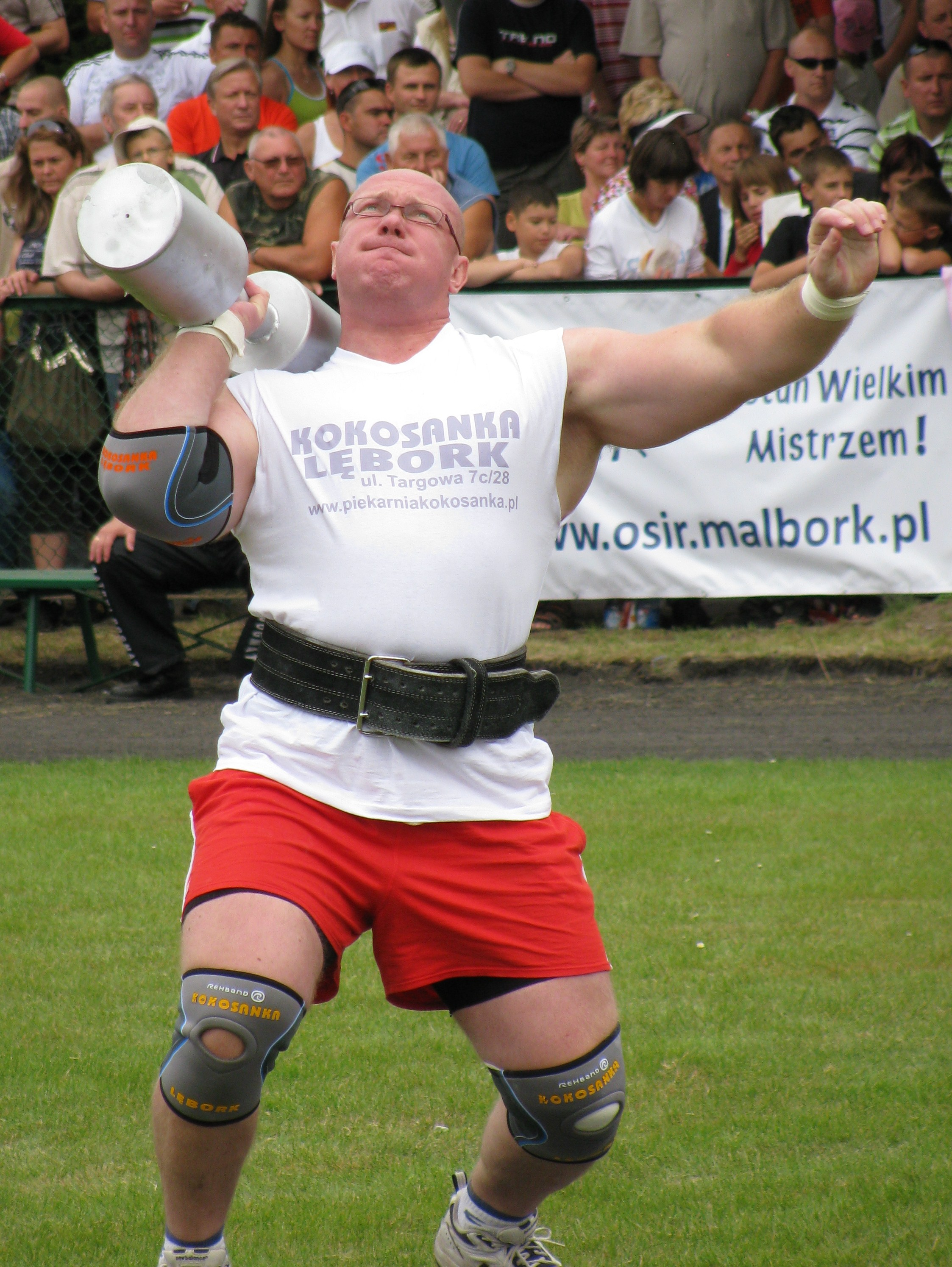 Krzysztof Schabowski - a strength athlete from Poland.